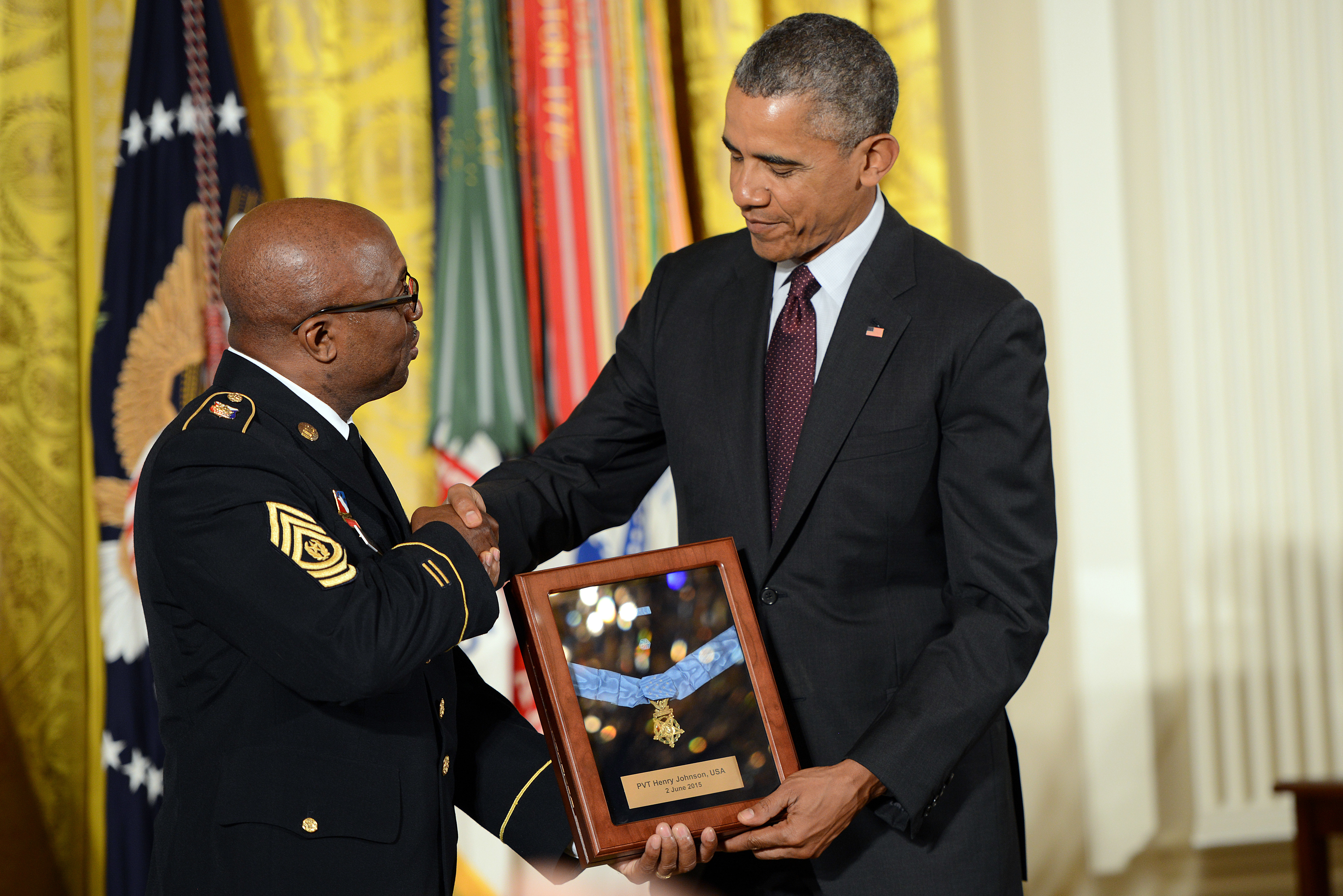 Command Sgt. Maj. Louis Wilson of the New York Army National Guard accepts the Medal of Honor on behalf of World War I Pvt. Henry Johnson, who served with the 369th Infantry Regiment, known as the Harlem Hellfighters, at the White House, Washington, D.C., June 2, 2015.